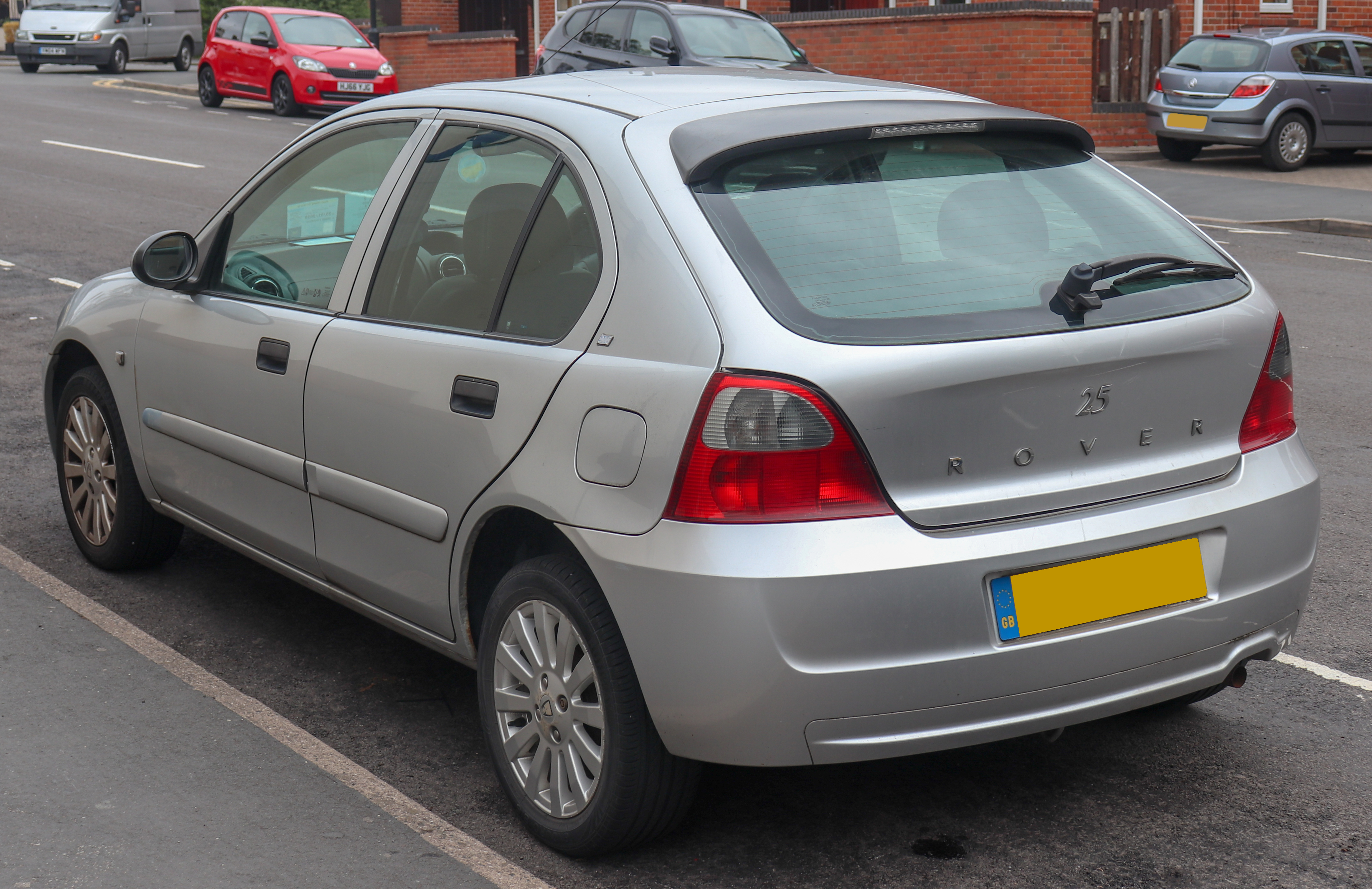 2006 Rover 25 GLi 1.4 Rear (Late 06 Reg) Taken in Leamington Spa